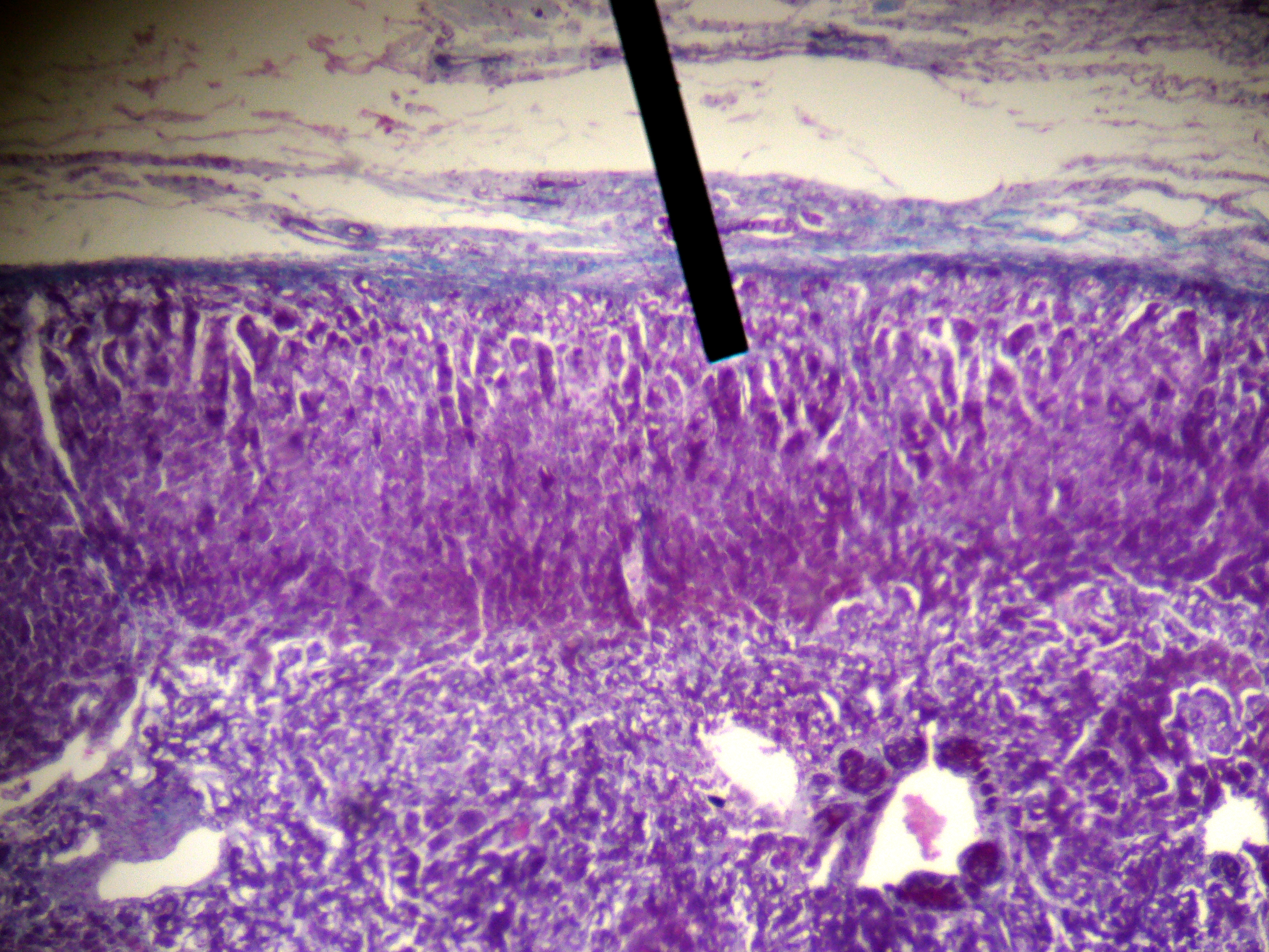 Author's own picture. Digital camera shot though a microscope; human adrenal gland (Zona glomerulosa).